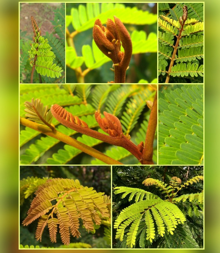 Intense brown buddings that change into green colour when they grow.